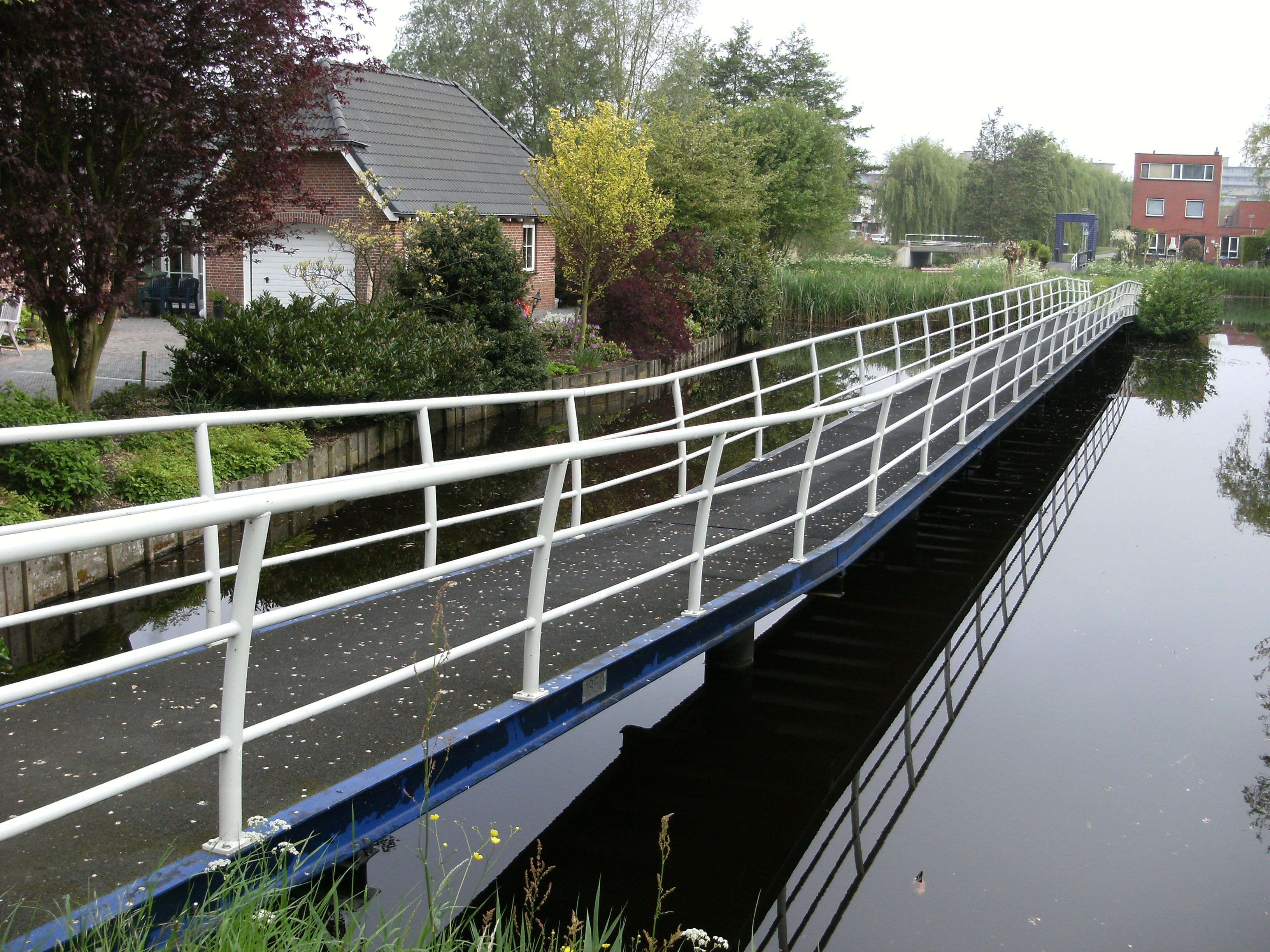 Pedestrian bridge (brug 1850), Nieuw Sloten, Amsterdam Nieuw-West.